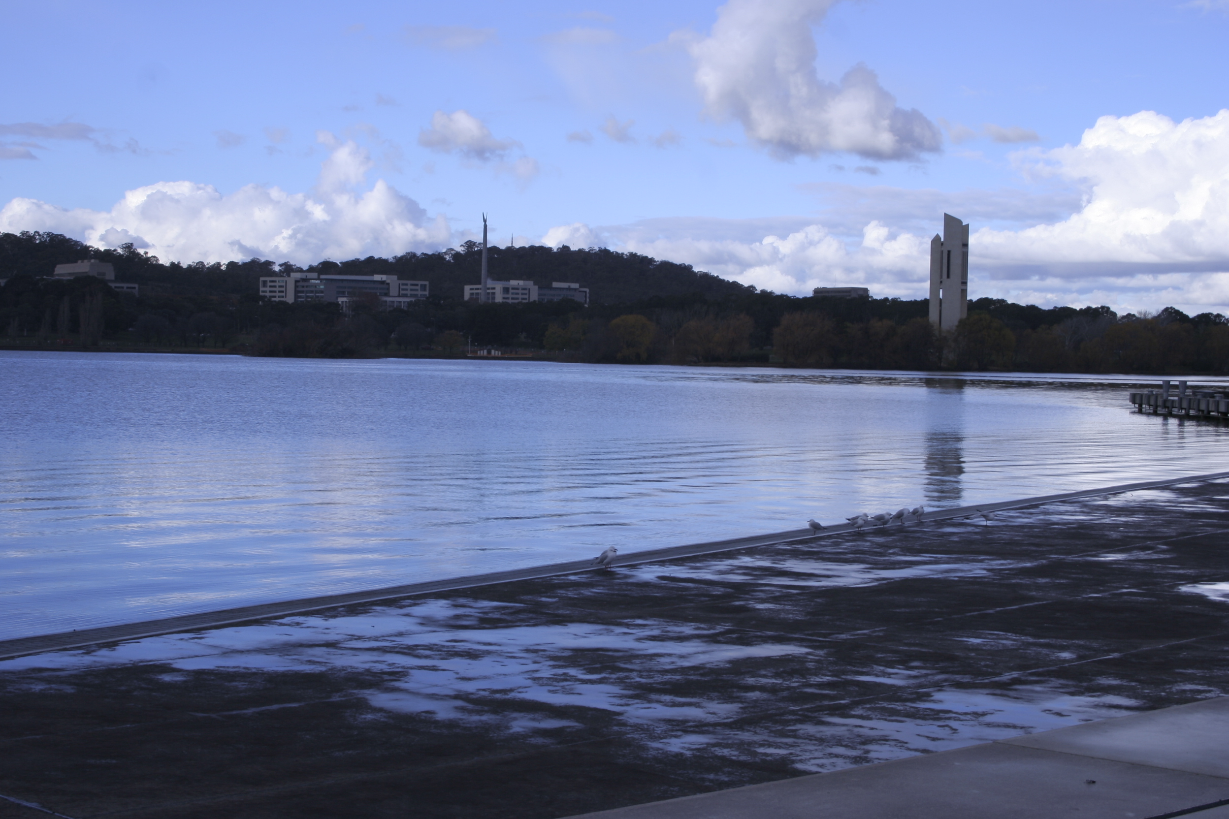 Lake Burley Griffin, Carillon, Russell